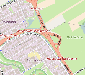 Map of interchange Euvelgunne